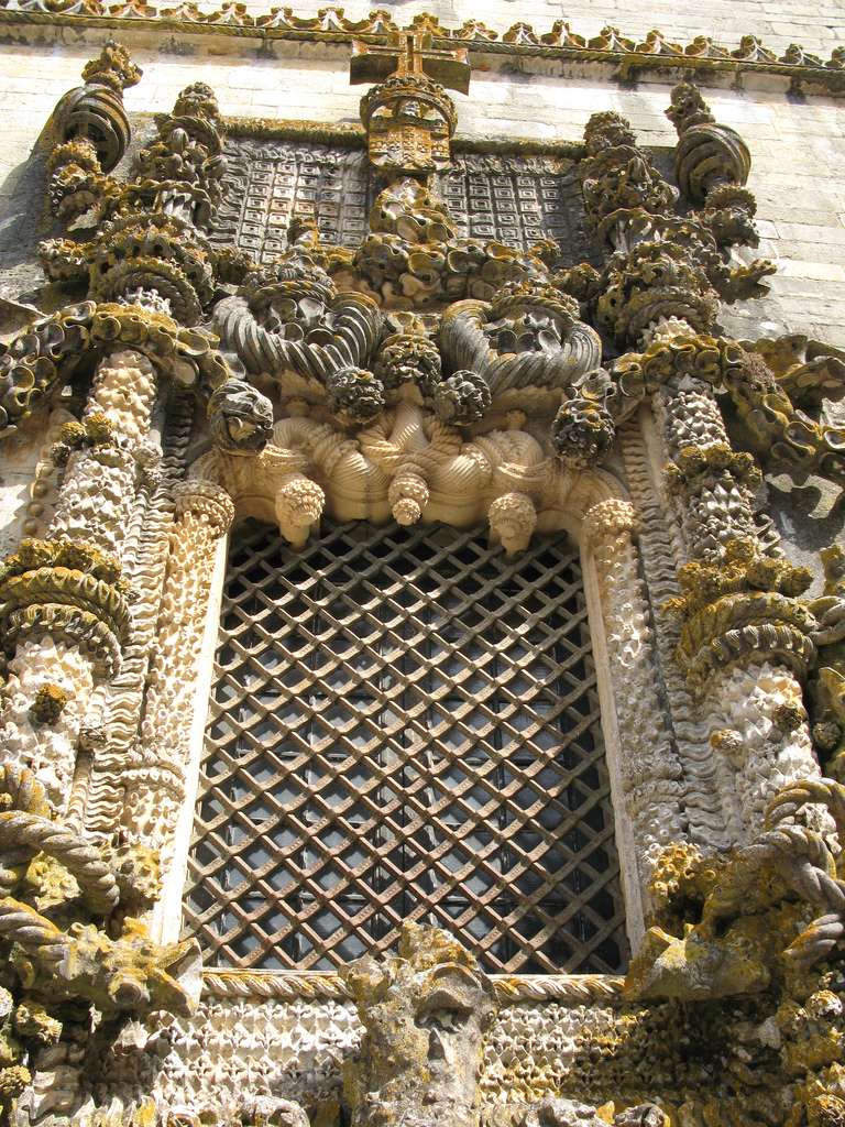 Manueline window of Christ Convent, Tomar